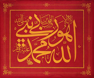 Untitled calligraphic panel written by Mustafa Rakim (Sakip Sabanci Müzesi)